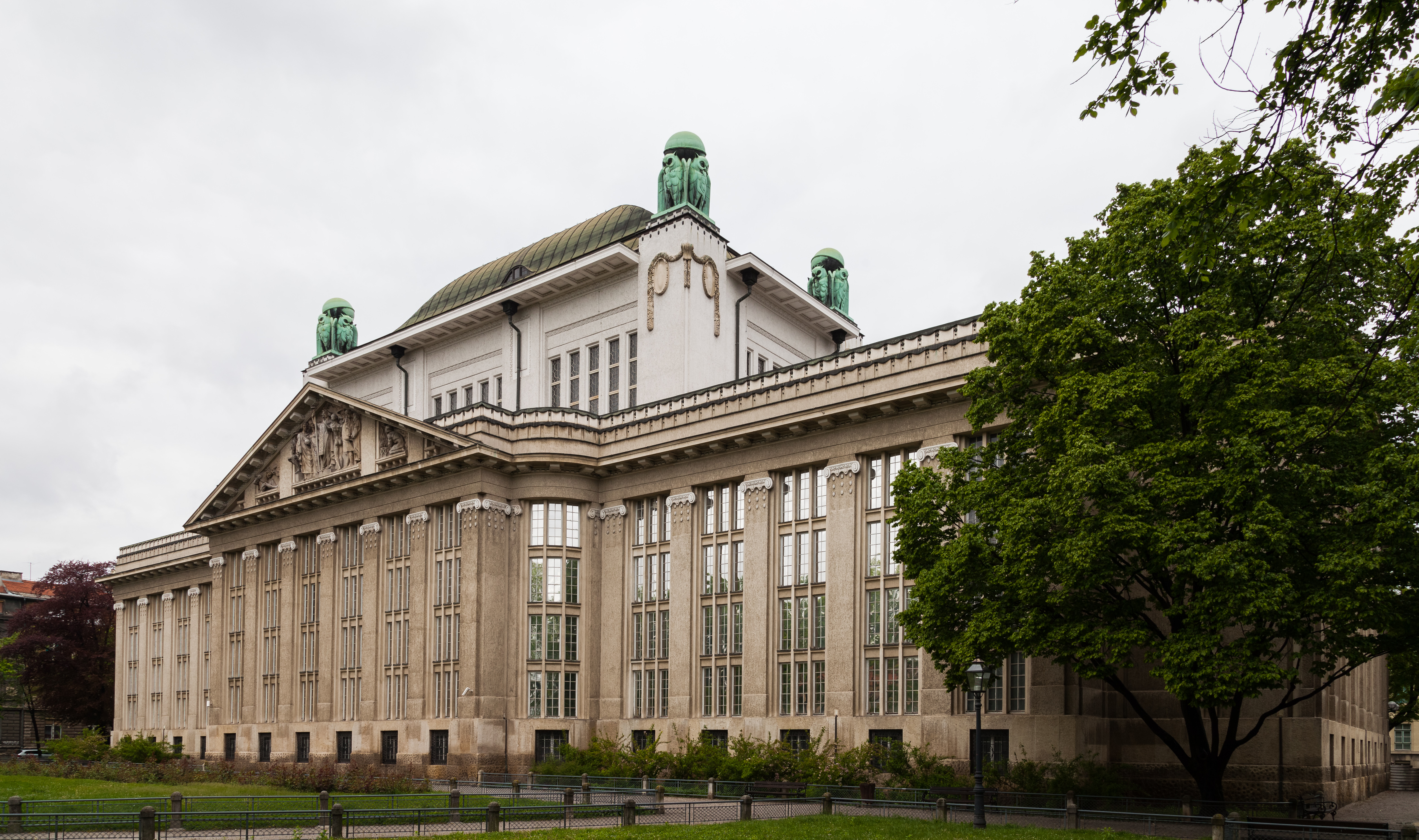 State Archives, Zagreb, Croatia